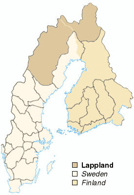 Map Swedish Provinces, Lappland.